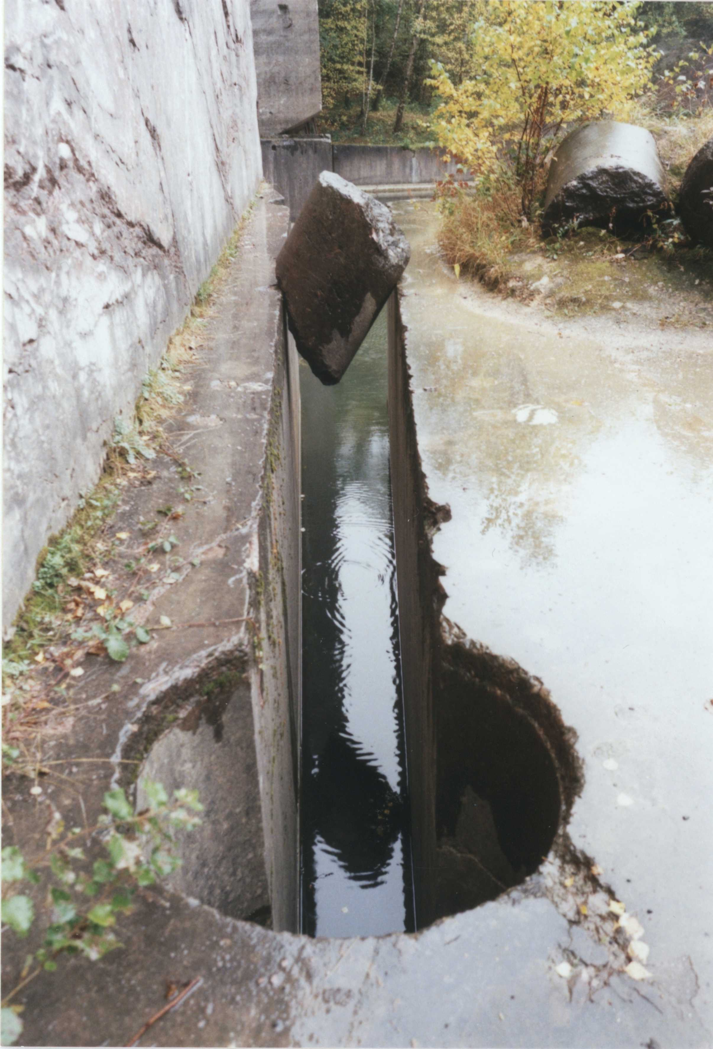 First cut with helicoidal wire saw in a Belgian limestone quarry (near Philippeville)